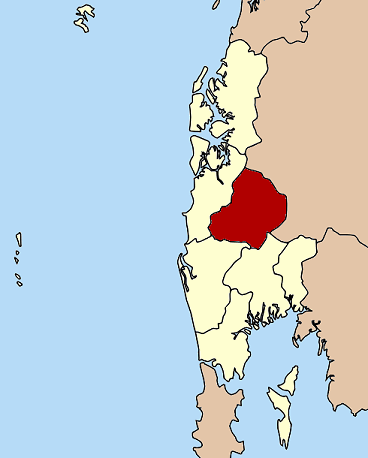 Map of Phang Nga province, Thailand, highlighting the district Kapong (geocode 8203).